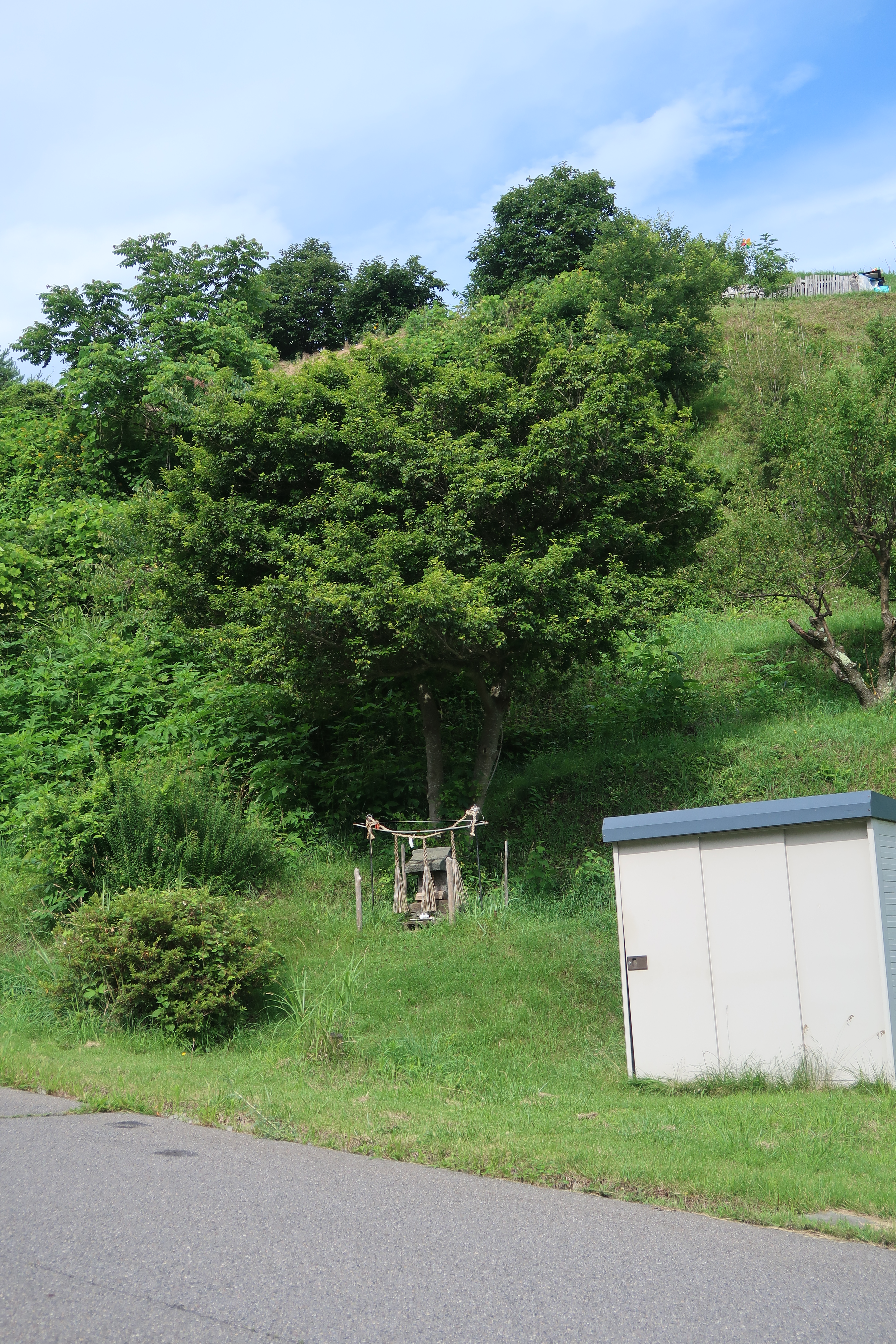 Ryūgen Yama-no-Kami (Minato, Okaya, Nagano Prefecture)